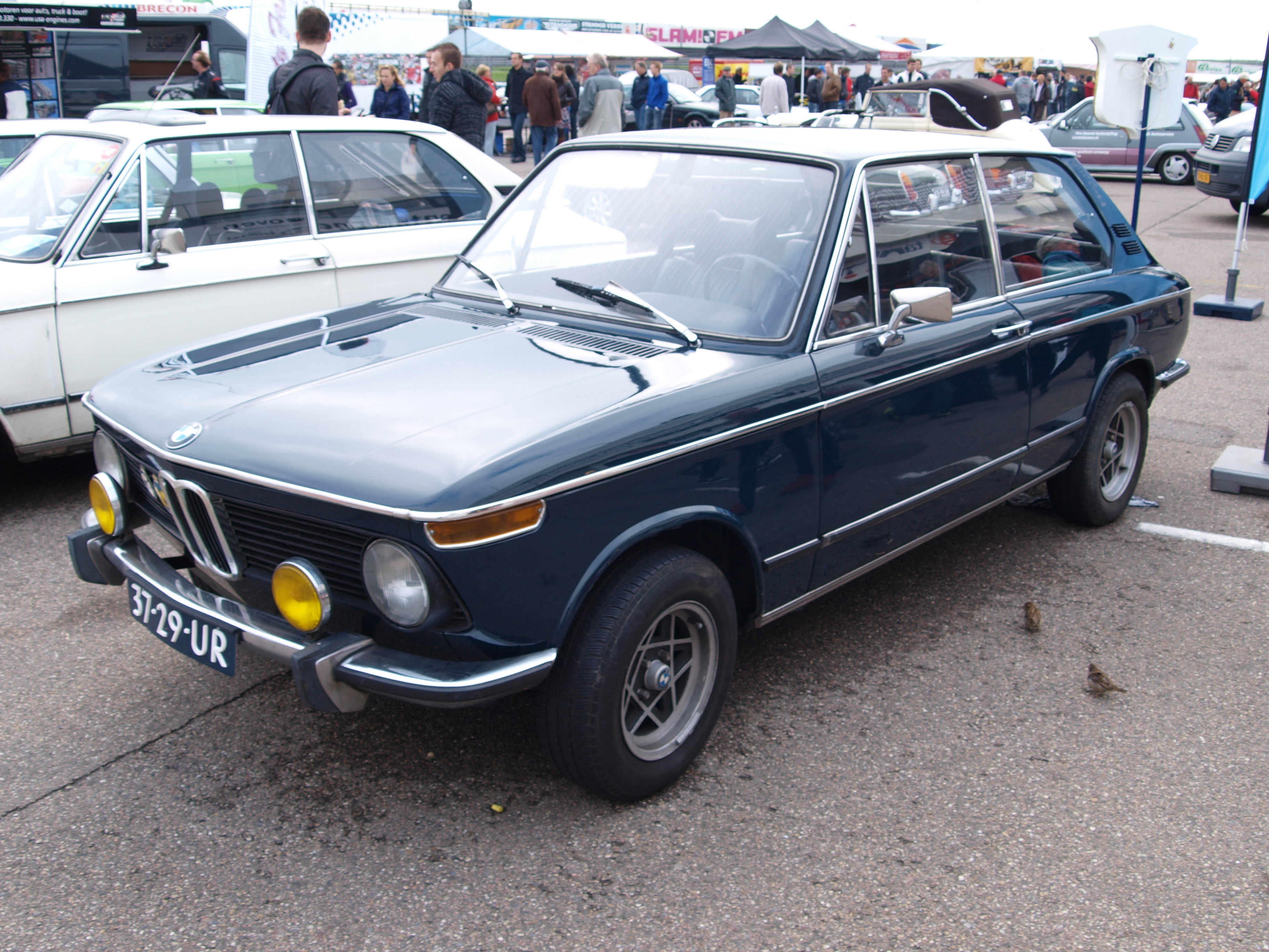 Photographed at the Nationaal Oldtimer Festival Zandvoort 2010, The Netherlands.